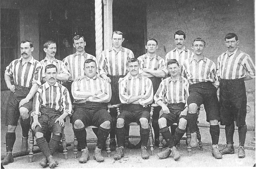 The Sheffield United F.C. side of 1901, runners-up in the FA Cup Final. The team are, from left to right, (back row) Hedley, Morren, Johnson, Thickett, Field, Boyle, Priest, Needham; (front row) Bennett, Foulke, Beers, Lipsham.